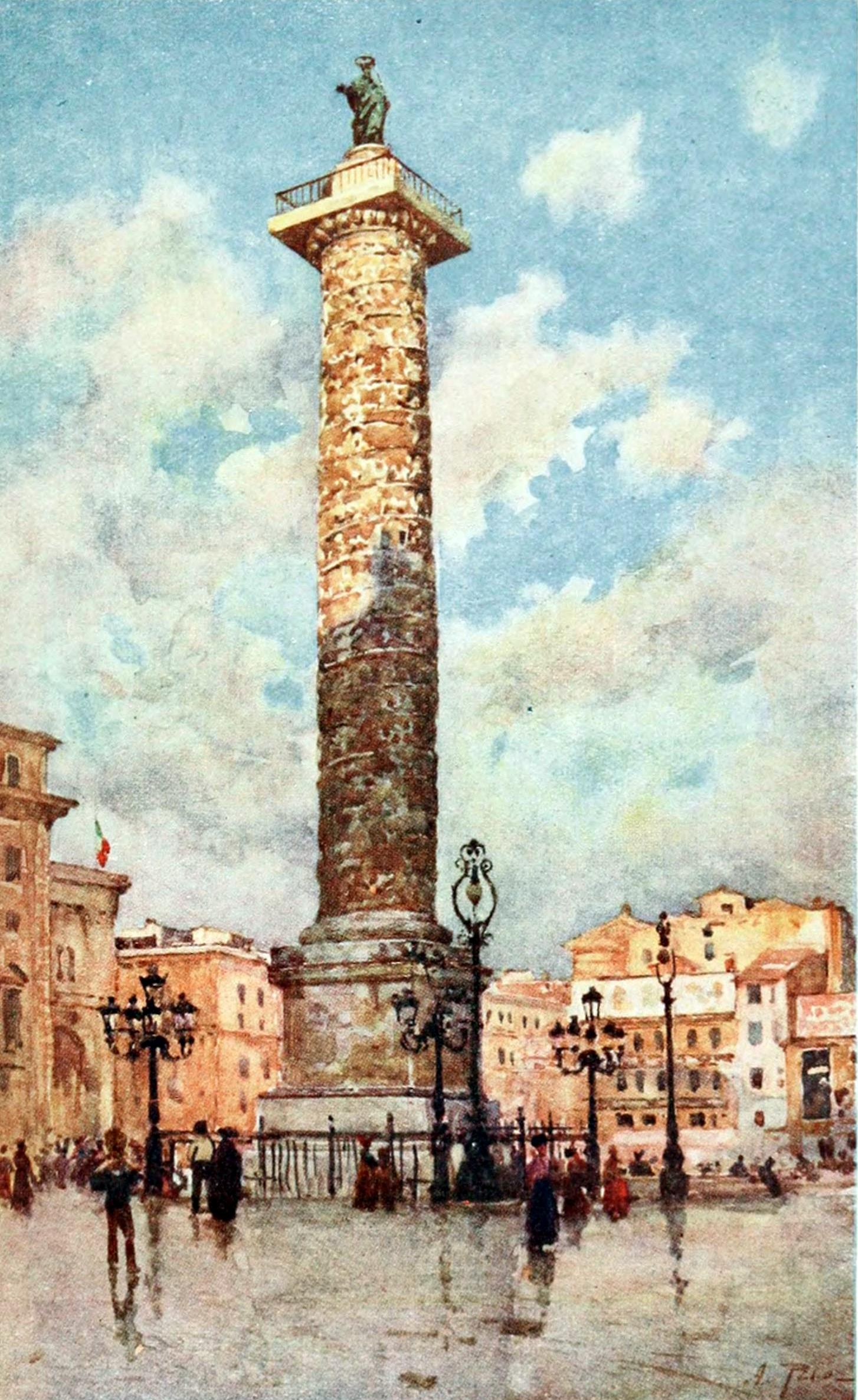 Column of Marcus Aurelius (Rome)